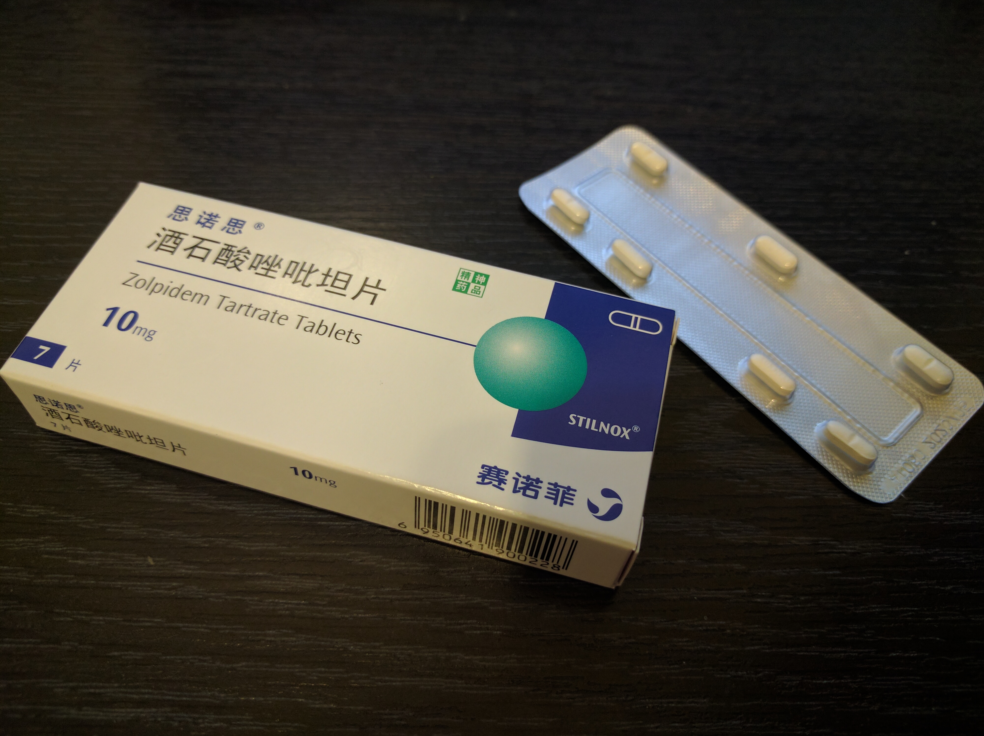 Zolpidem Tartrate Tablets (Stilnox®) sales in China